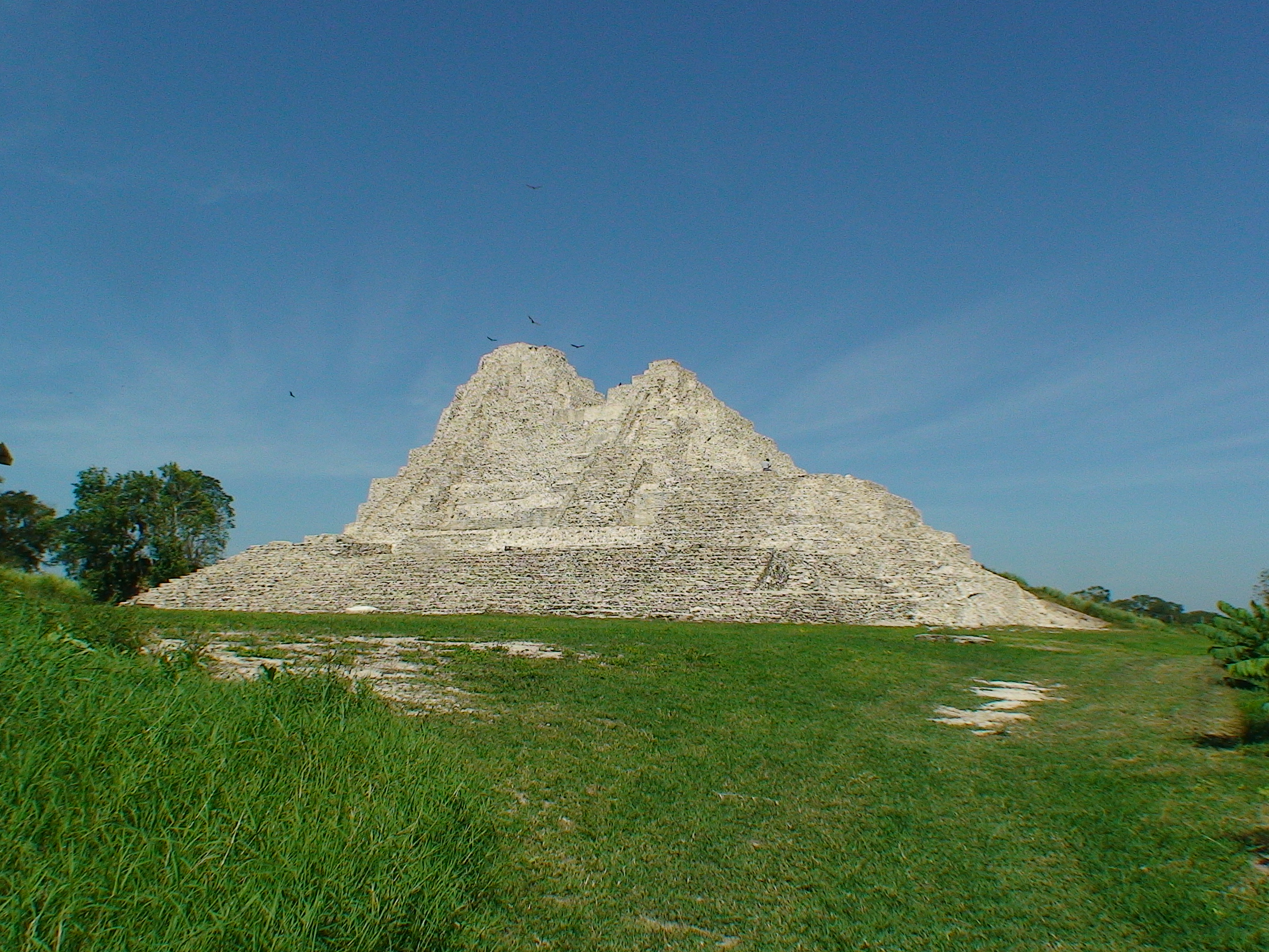 La Reforma, Tabasco, Mexico: main pyramid